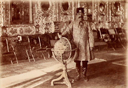 Nasser al-Din Shah Qajar (1831-1896), Shah of Persia from 17 September 1848 until his assassination on 1 May 1896. This photograph is reproduced from an album belonging to Nasser al-Din Shah himself, containing more than one hundred photographs. This photograph shows Nasser al-Din Shah in the Hall of Mirrors of the Golestan Palace, standing next to the Jewelled Globe. Source: Iranian Artists' site, Kargah. This is a reproduction of a photograph from an album belonging to Nasser Ad-Din Shah Qajar, containing more than one hundred photographs, covering a wide range of subject matters. The survival of this album has been attributed to Dr Fathollah Jalali.